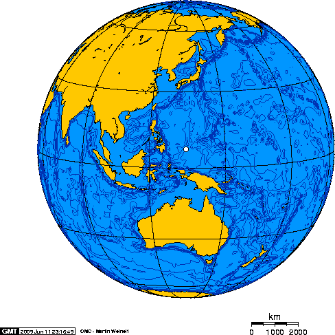 Orthographic projection centred over Palau.